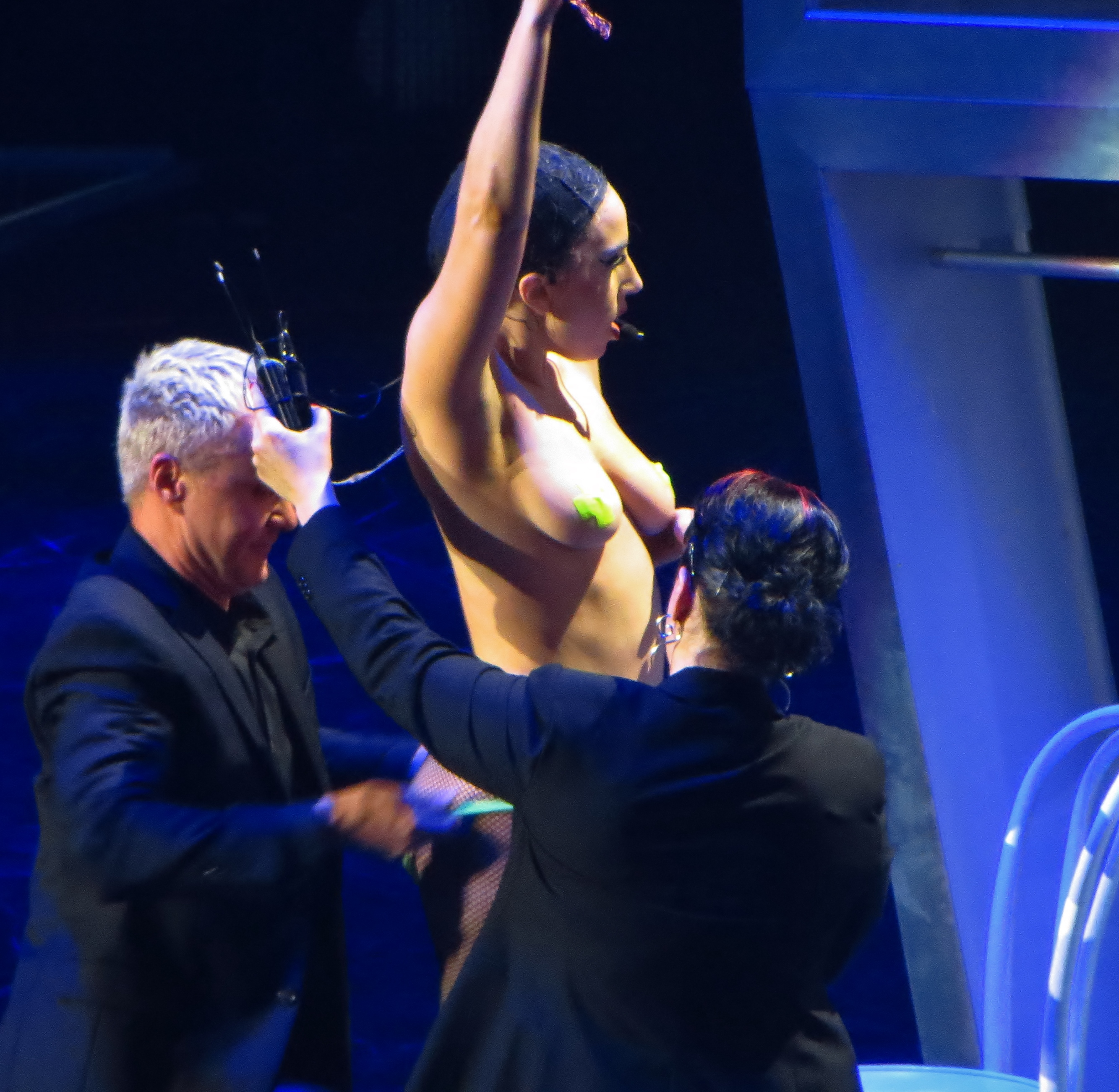 Lady Gaga, ARTPOP Ball Tour, Bell Center, Montréal, 2 July 2014 (115) Gaga performing on ArtRave: The Artpop Ball tour